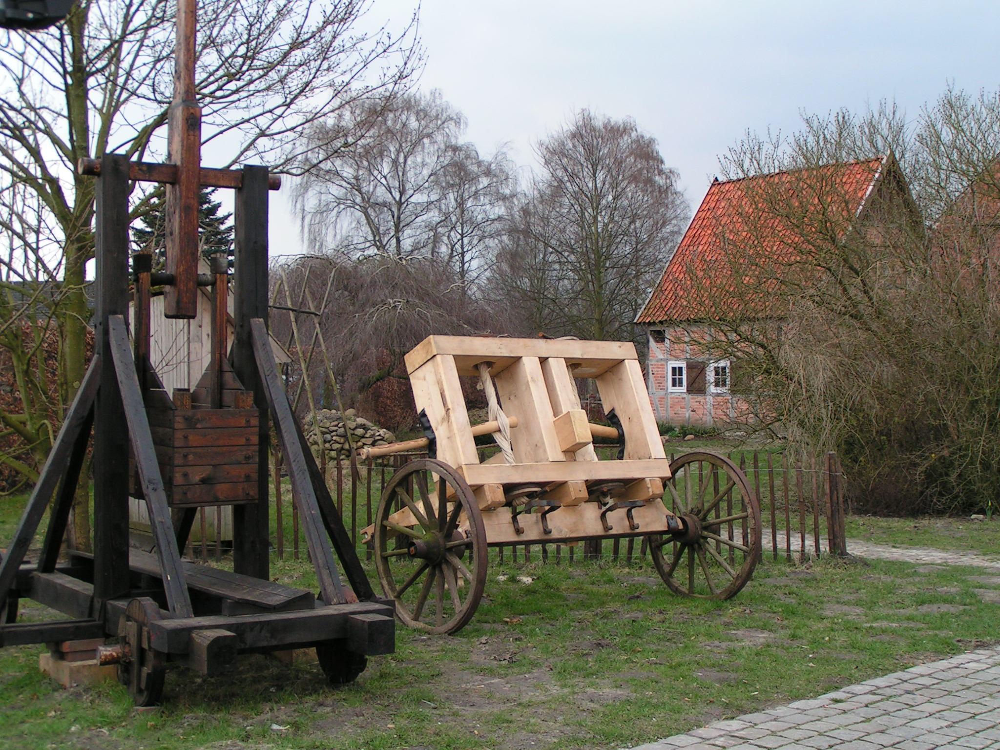 Kampfmaschinen im Außenbereich des Zeughausmuseums Vechta